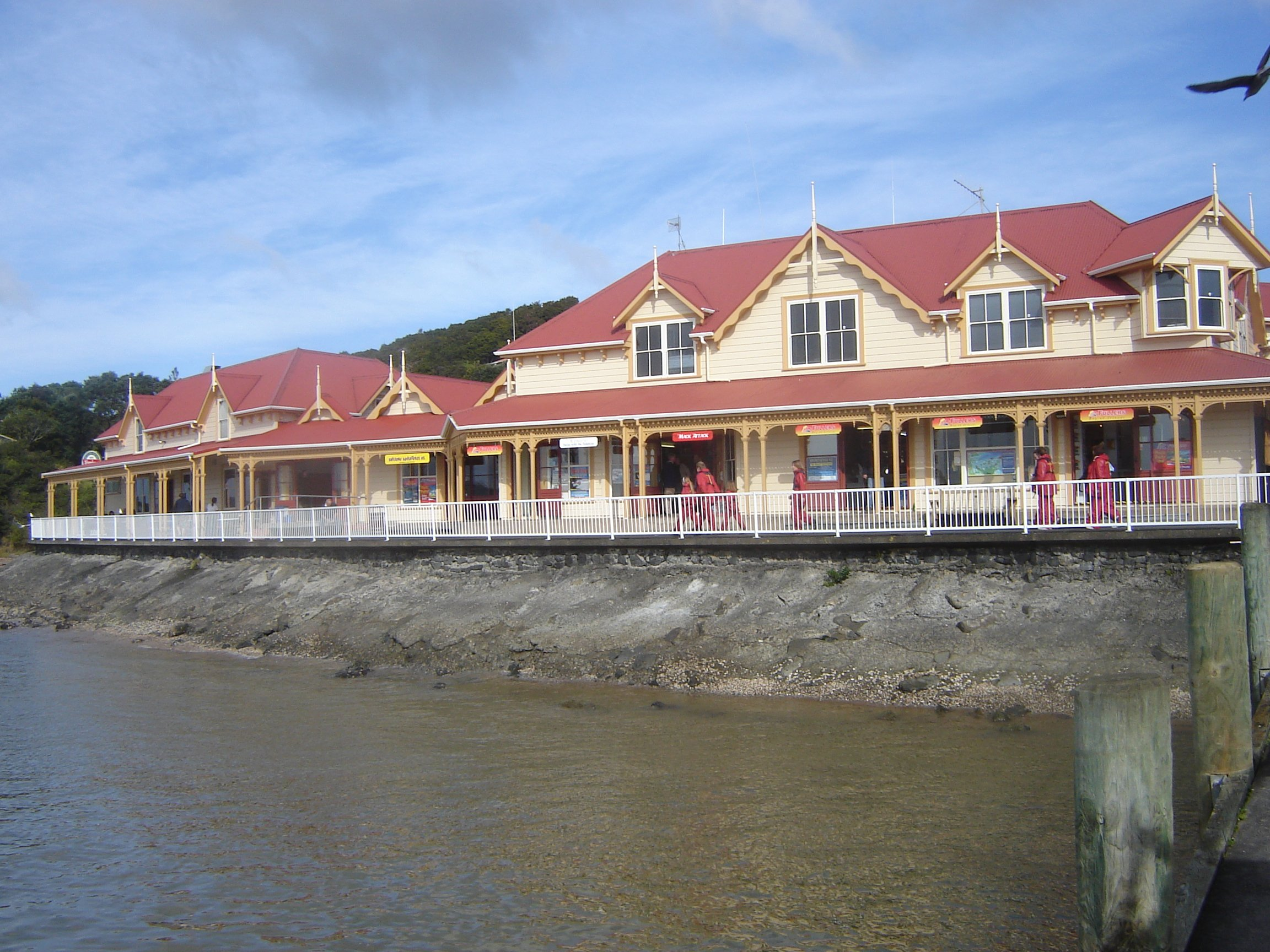 Maritime building in Paihia, New Zealand.